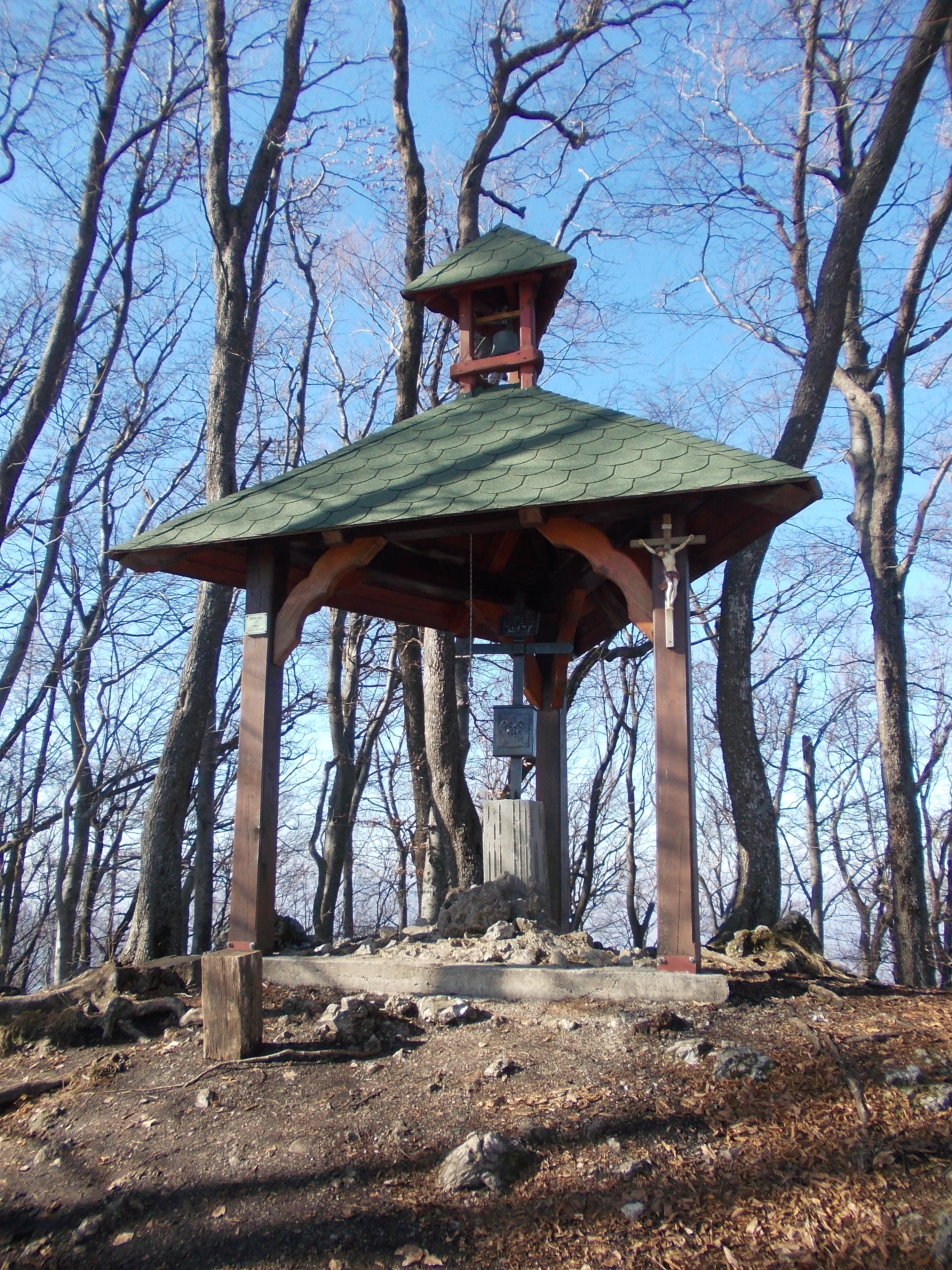 Veliki Špiček